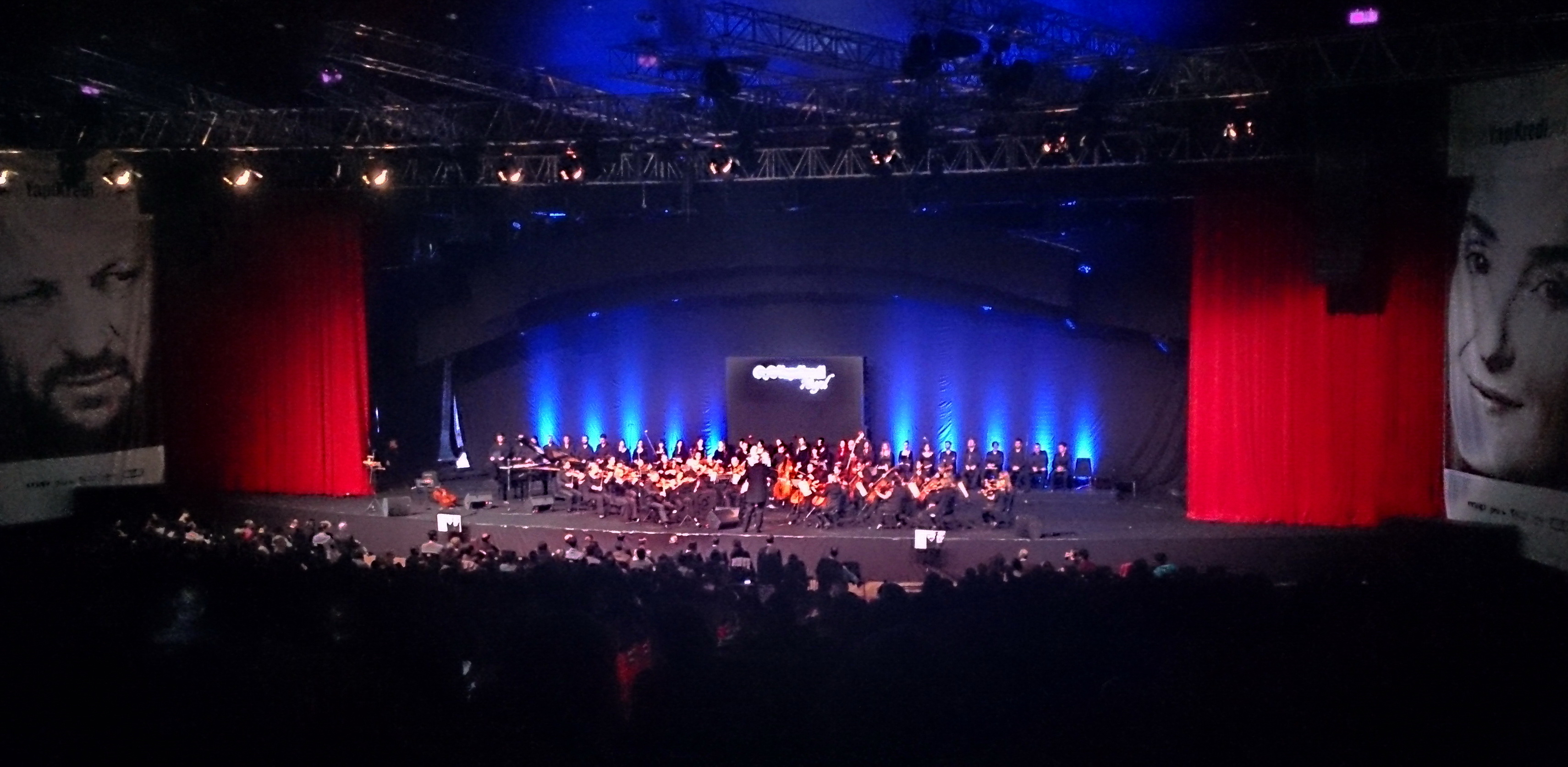 Polish composer Zbigniew Preisner and Australian singer/composer Lisa Gerrard at Istanbul Congress Hall.